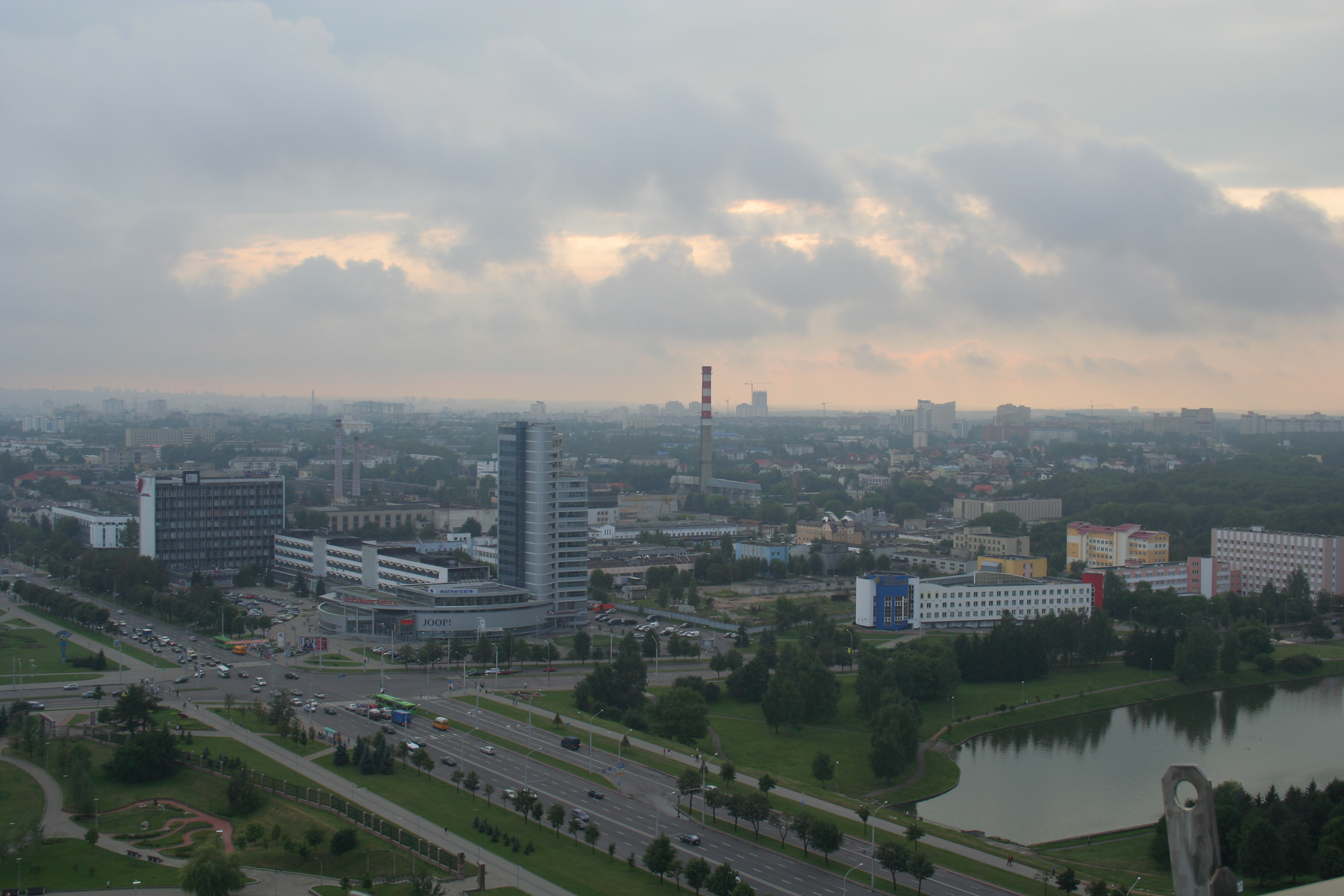 Views of Minsk (Belarus). View from observation deck of the National Library.